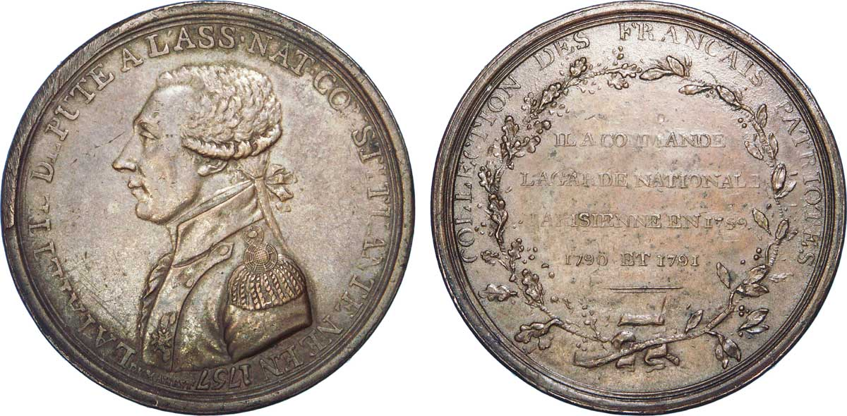 Médaille à l'effigie de Lafayette Description avers : Buste de Lafayette en uniforme à gauche . Traduction avers : (Lafayette, député à l’Assemblée Nationale Constituante, né en 1757) .